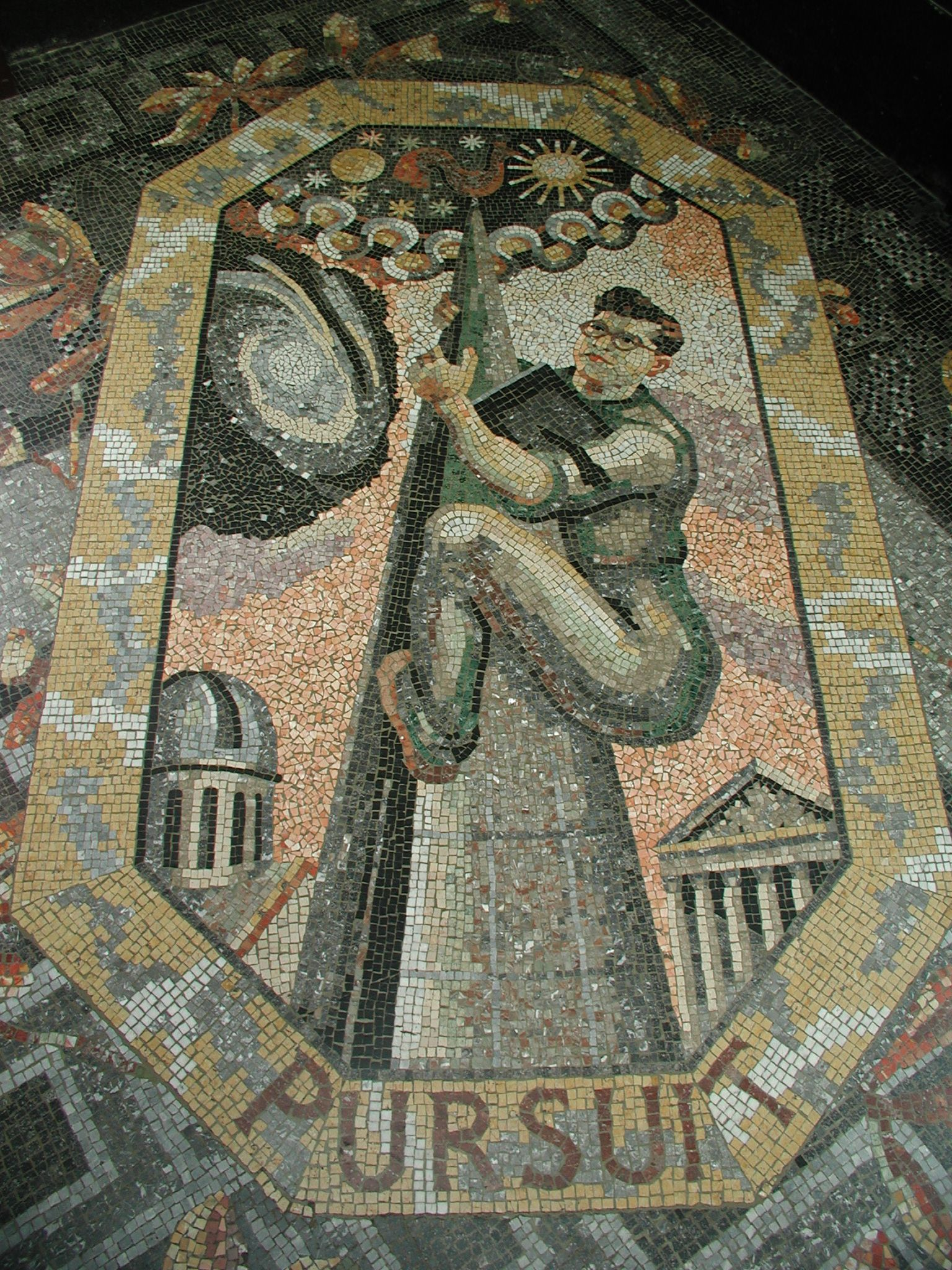 Pursuit (1952) by Boris Anrep, part of a series of mosaics of the Modern Virtues in the entrance hall of the National Gallery, London. It depicts the astronomer Sir Fred Hoyle as a steeplejack climbing up to the stars.